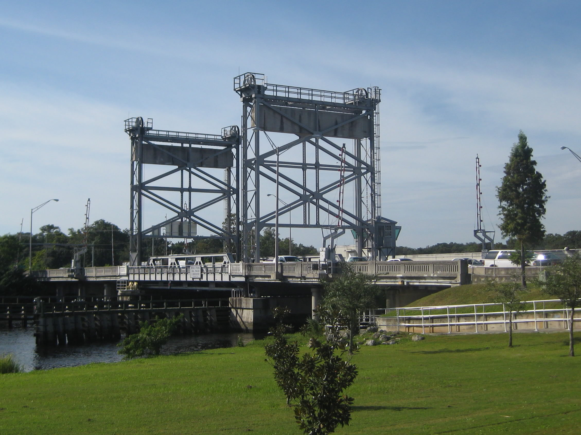 The Thomas N. Henderson Hillsborough Avenue Bridge is a steel vertical lift bridge built in 1939 crossing the Hillsborough River in Tampa, Florida, USA.